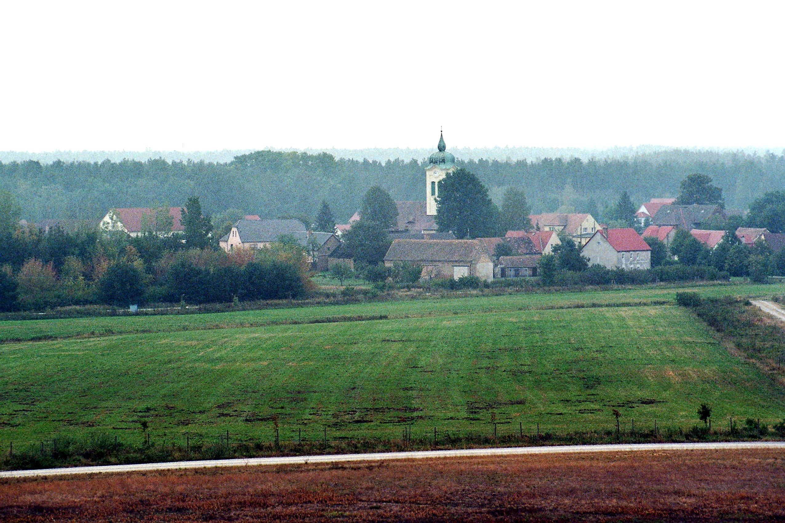 Boulder park Nochten, view to Nochten